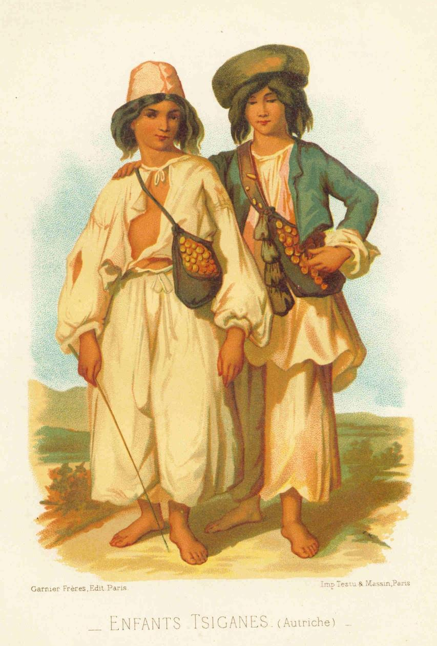 Chromolithograph entitled Enfants Tsiganes (Autriche) [Gipsy Children, Austria]; published by Garnier, Paris, printed by Testu & Massin, Paris